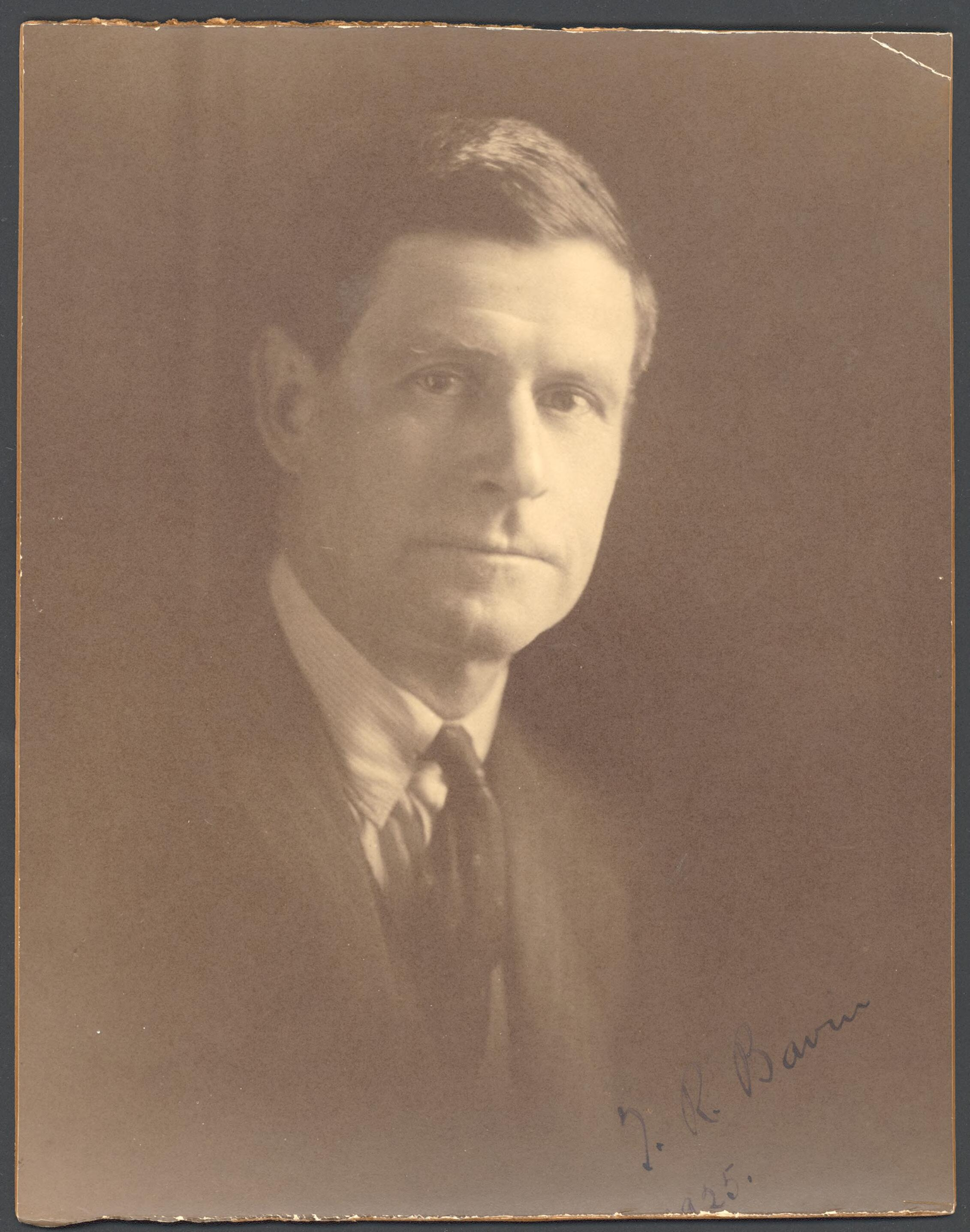 Australian politician Tom Bavin